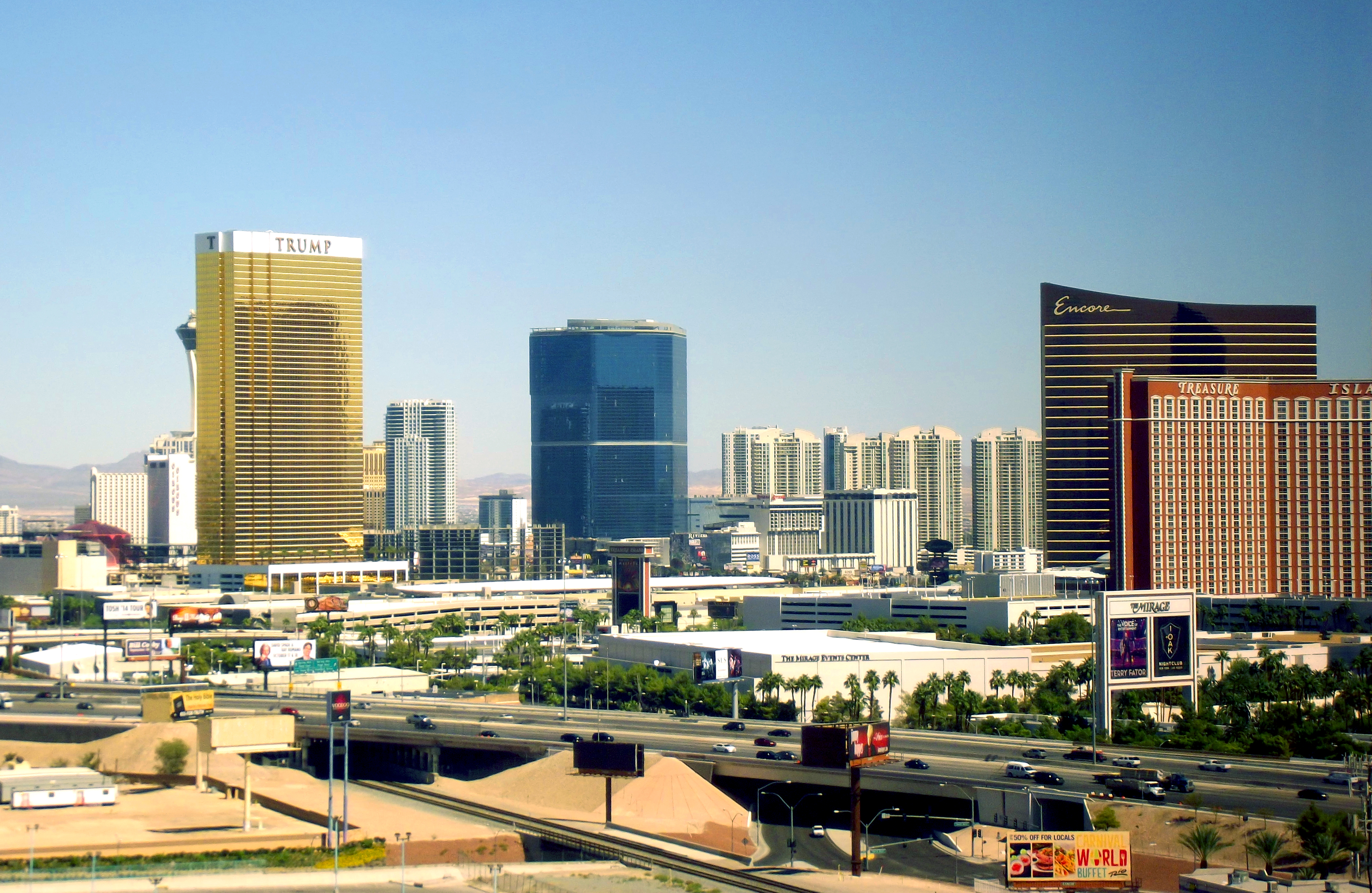 Las Vegas skyline 2014 as seen from room 15019 at the Rio Hotel in Las Vegas